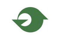 Flag of Taiji Wakayama